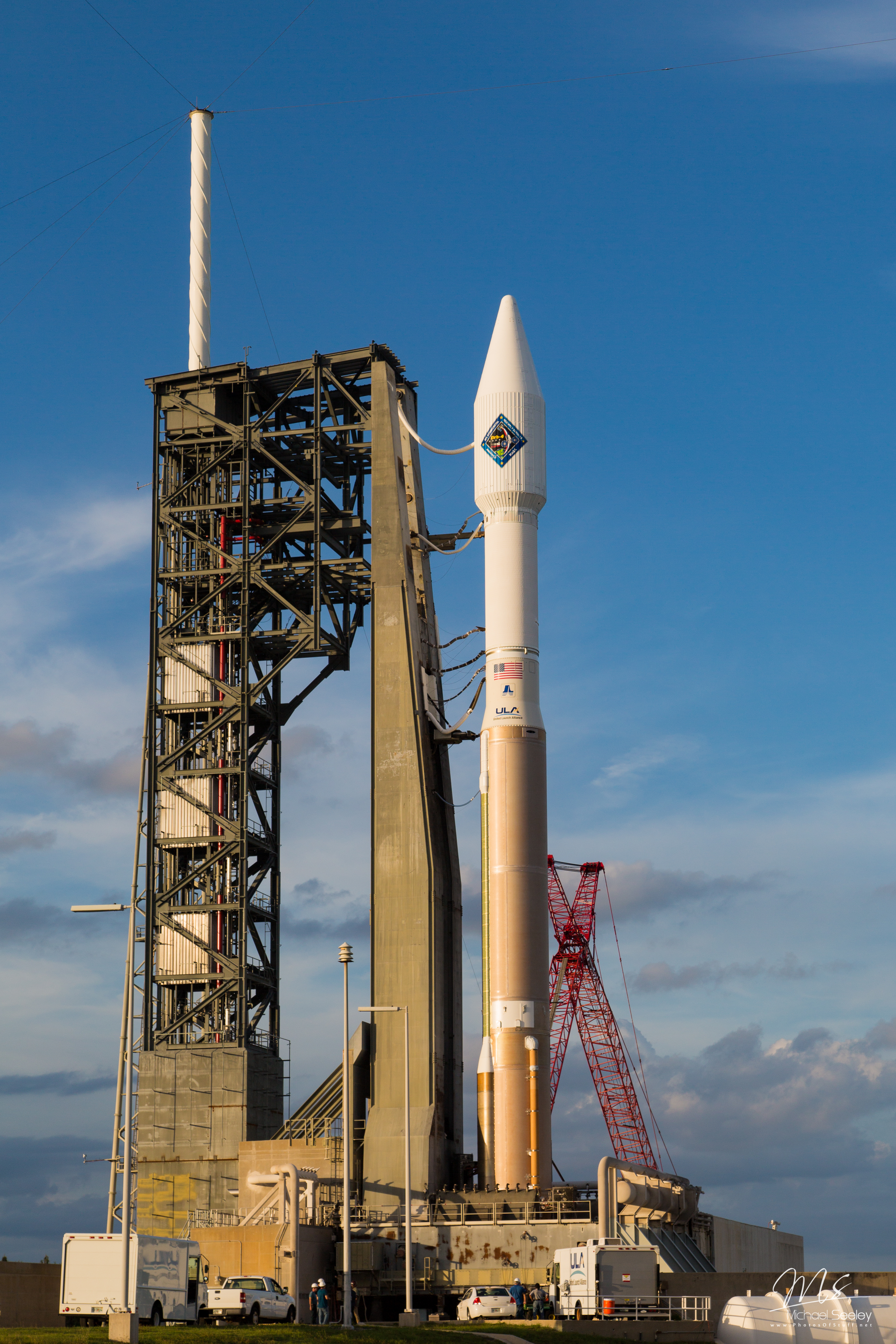 Photos from day 2 of the Orbital ATK CRS-4/OA-4 events at Kennedy Space Center, Florida.